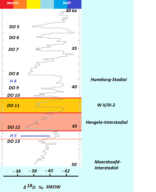 The Hengelo Interstadial (marked in red) in its temporal context 30 to 50 ky BP. The W II/III-2 Interstadial is marked in orange. The red line marks the earliest onset of the Hengelo. The GISP 2 oxygen isotope curve is from Wolfgang Weißmüller. Also indicated are the positions of the Dansgaard-Oeschger events DO 5 til DO 13 and the Heinrich events H4 and H5 (in blue).